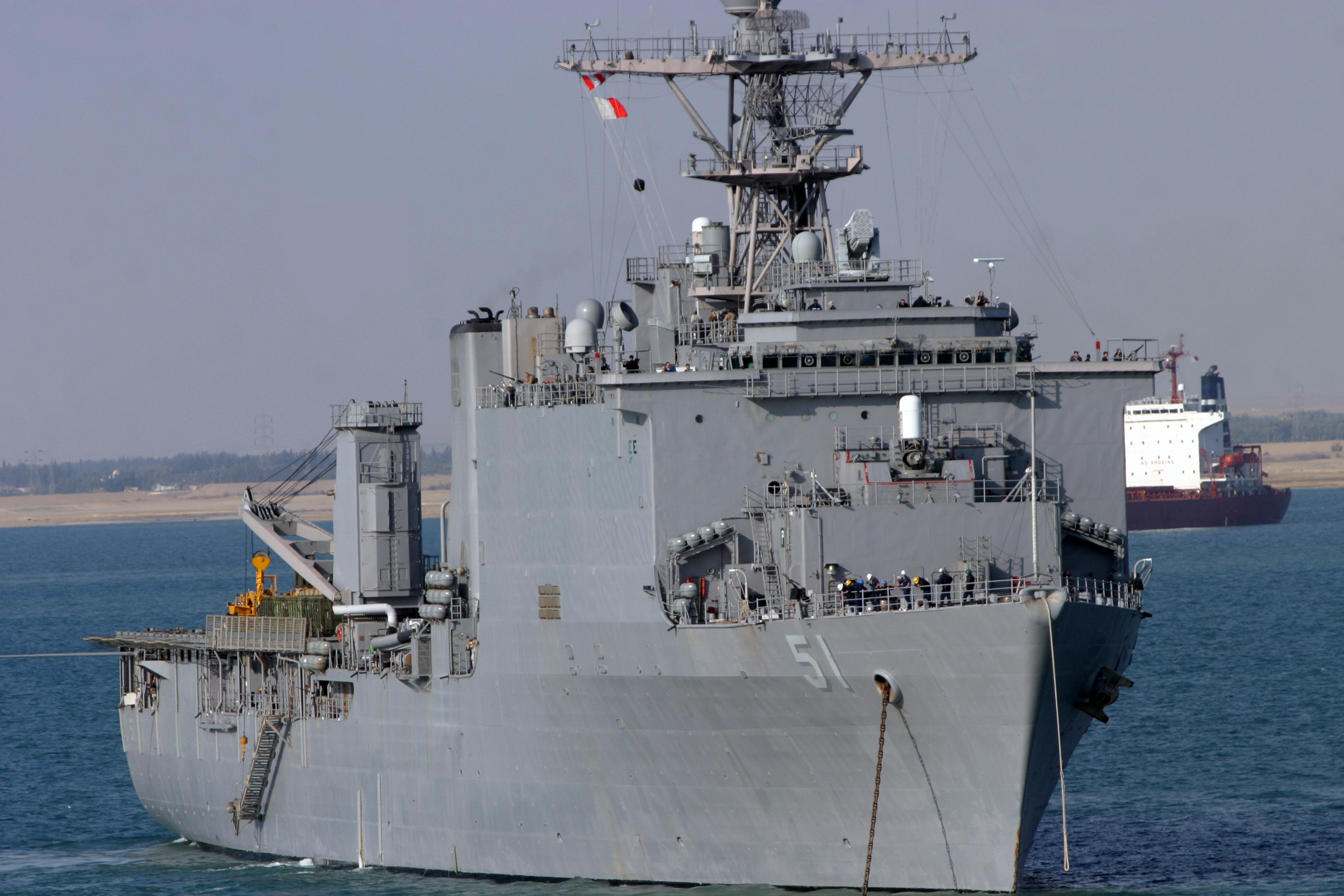 Summary 070130-M-9389C-124 Red Sea (Jan. 30, 2007) – Dock landing ship USS Oak Hill (LSD 51) and the Bataan Expeditionary Strike Group (ESG) enter U.S. Central Command's Area of Responsibility as they transit the Suez Canal. The 26th Marine Expeditionary Unit is the landing force for the Bataan ESG, and is currently on deployment in support of the global war on terrorism. U.S. Marine Corps photo by Sergeant Freddy G. Cantu (RELEASED)